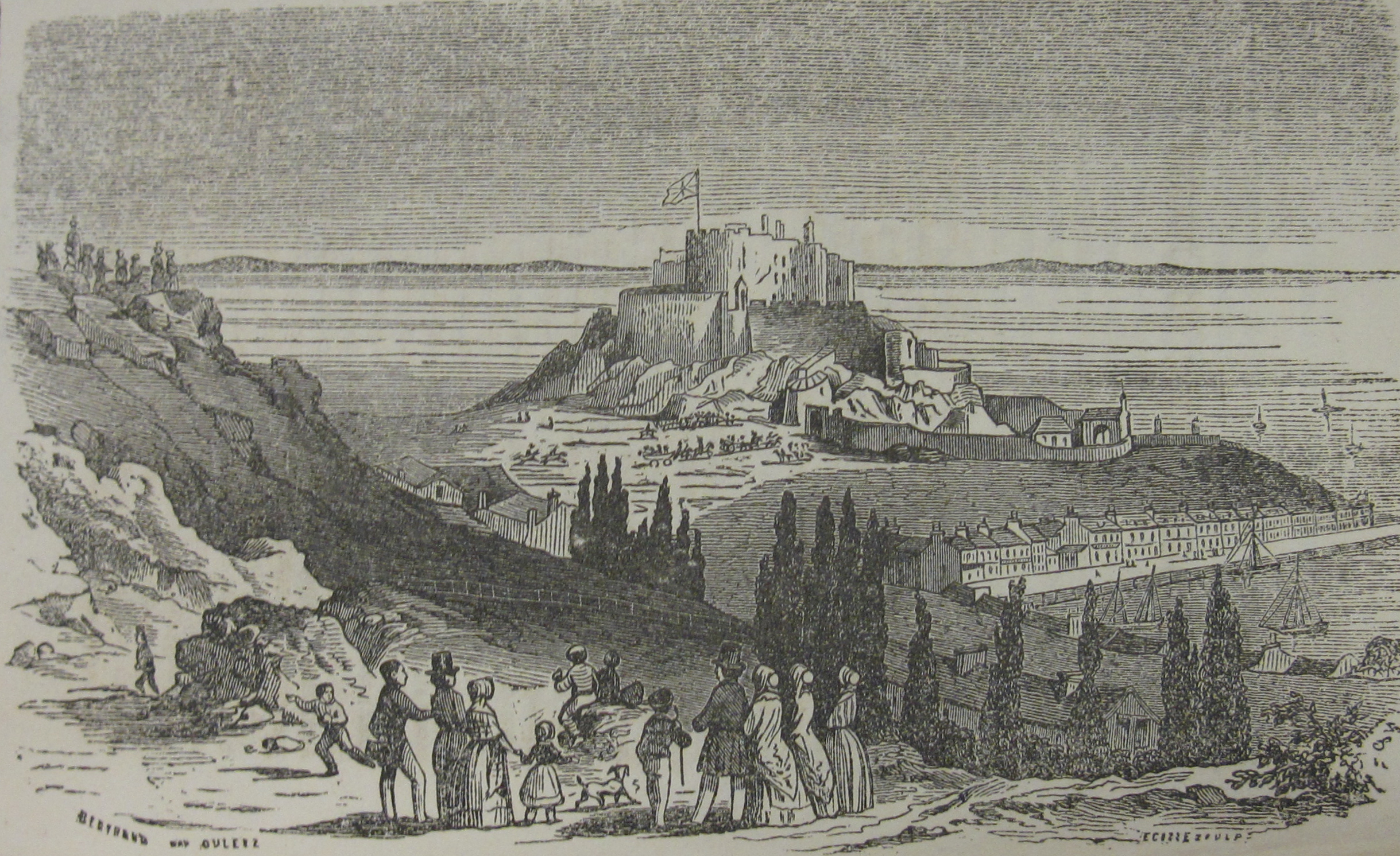 Illustration from The Picturesque and Historical Guide to the Island of Jersey, 1852, Rev. Edward Durell, interspersed with lithographic drawing by P.J. Ouless, artist - "Arrival of Her Majesty at Mont Orgueil castle"